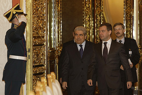 THE KREMLIN, MOSCOW. Before the start of Russia-Cyprus talks. With President of the Republic of Cyprus Demetris Christofias.